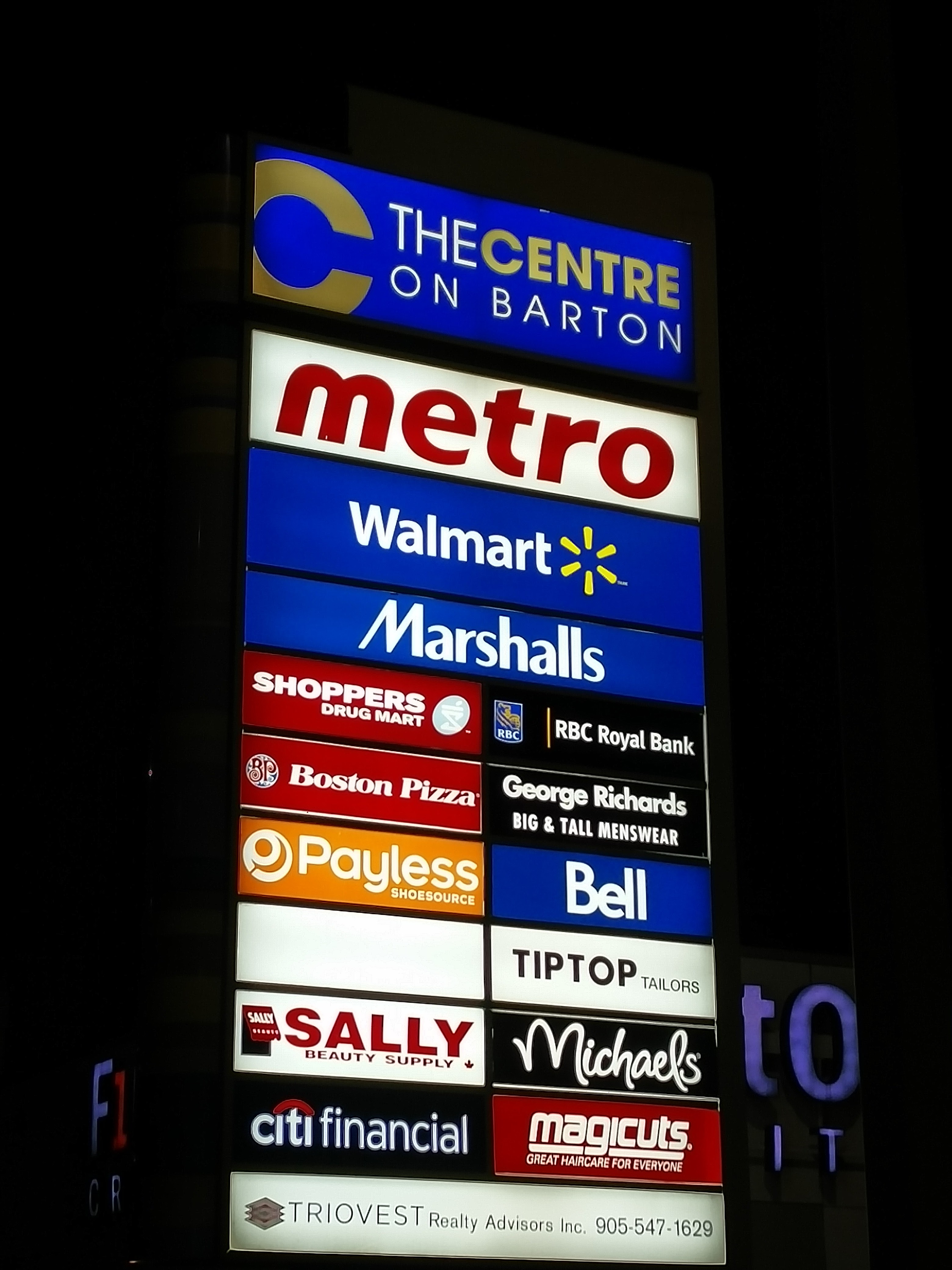 The Centre On Barton, sign at main entrance on Barton Street East, Hamilton, Ontario, Canada